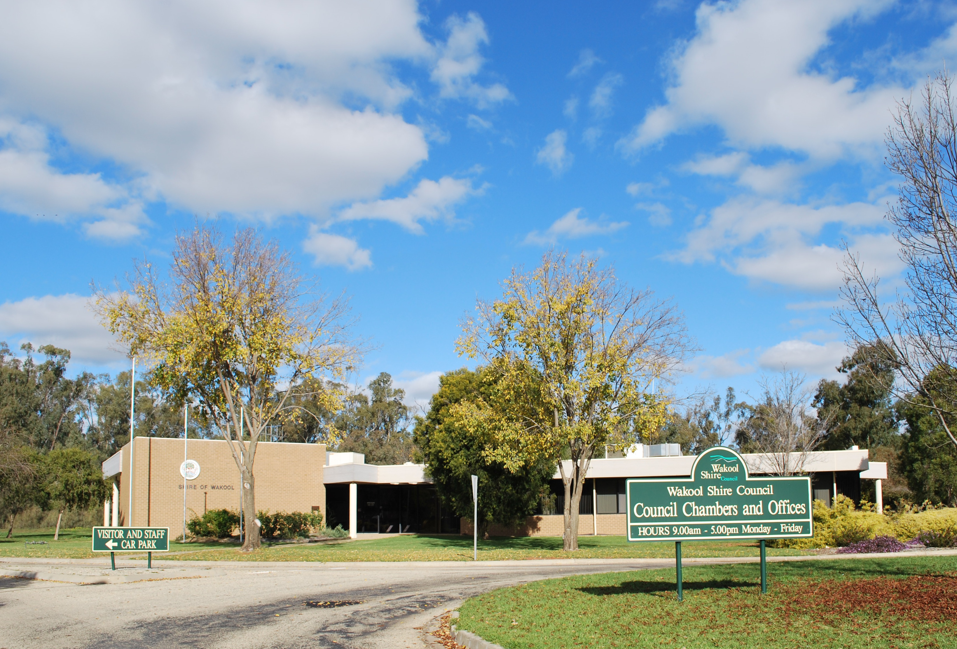 Wakool Shire Council offices and Council Chambers at Moulamein, New South Wales